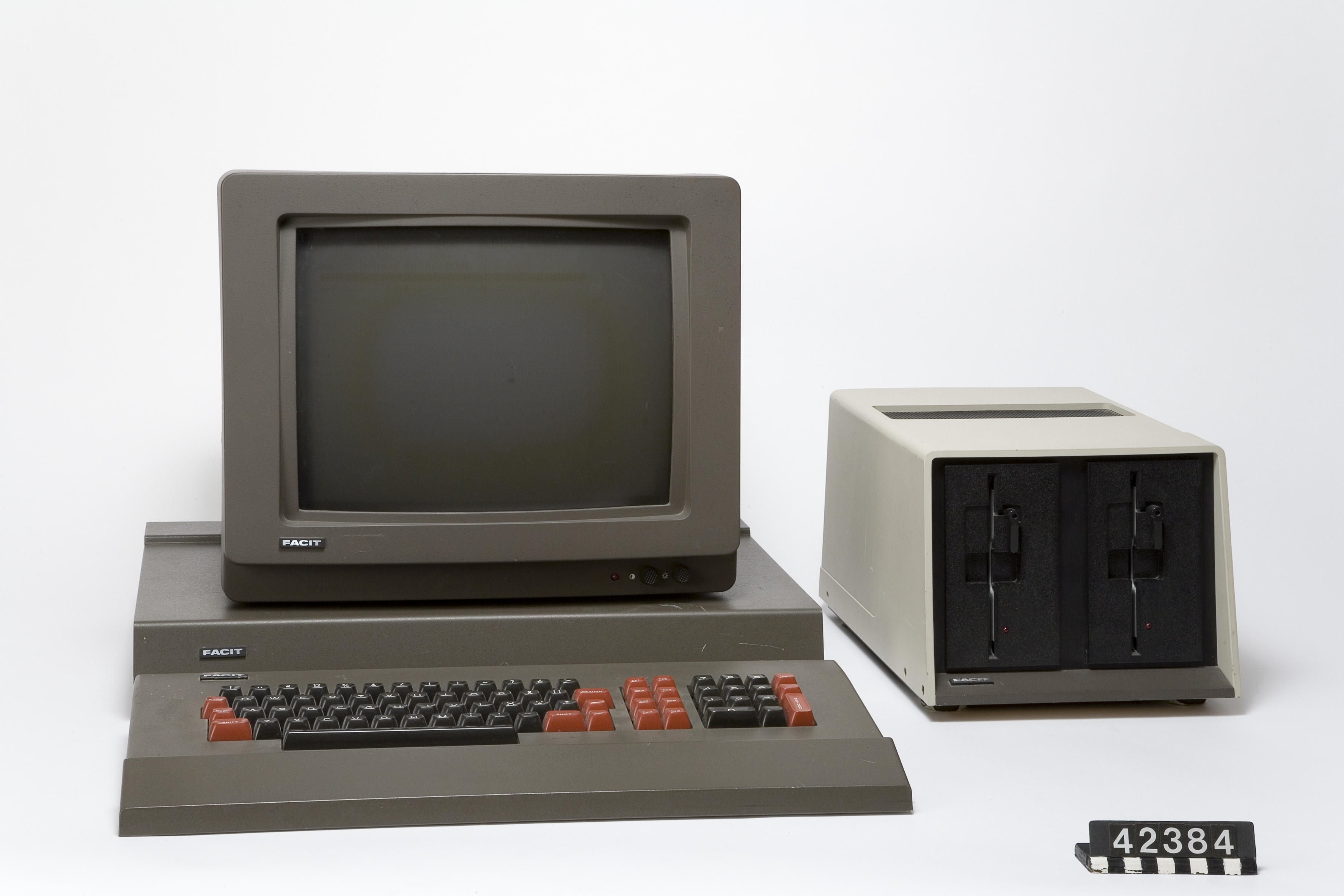 The Facit DTC was an OEM product and identical to Luxor ABC 800.